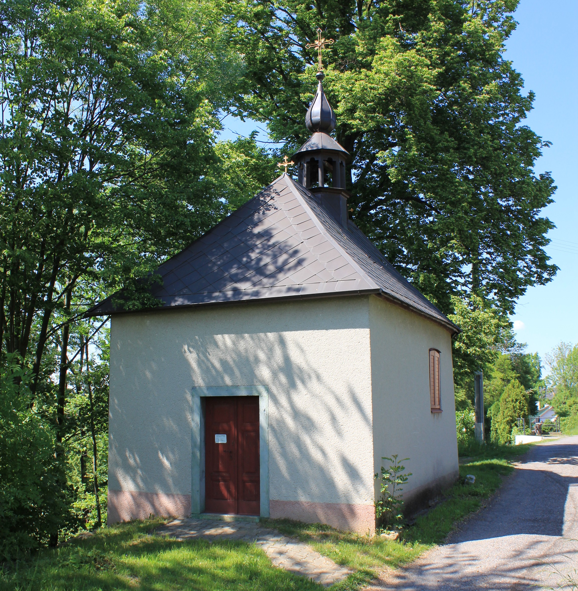 Chapel of St. Barbara in Česká Třebová - Lhotka